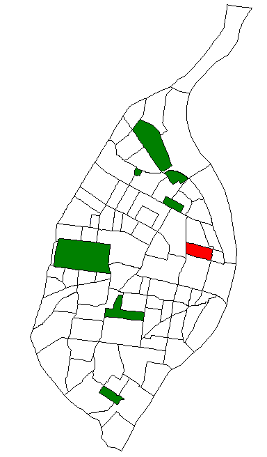 Map of St. Louis Neighborhood #61 (Carr Square)